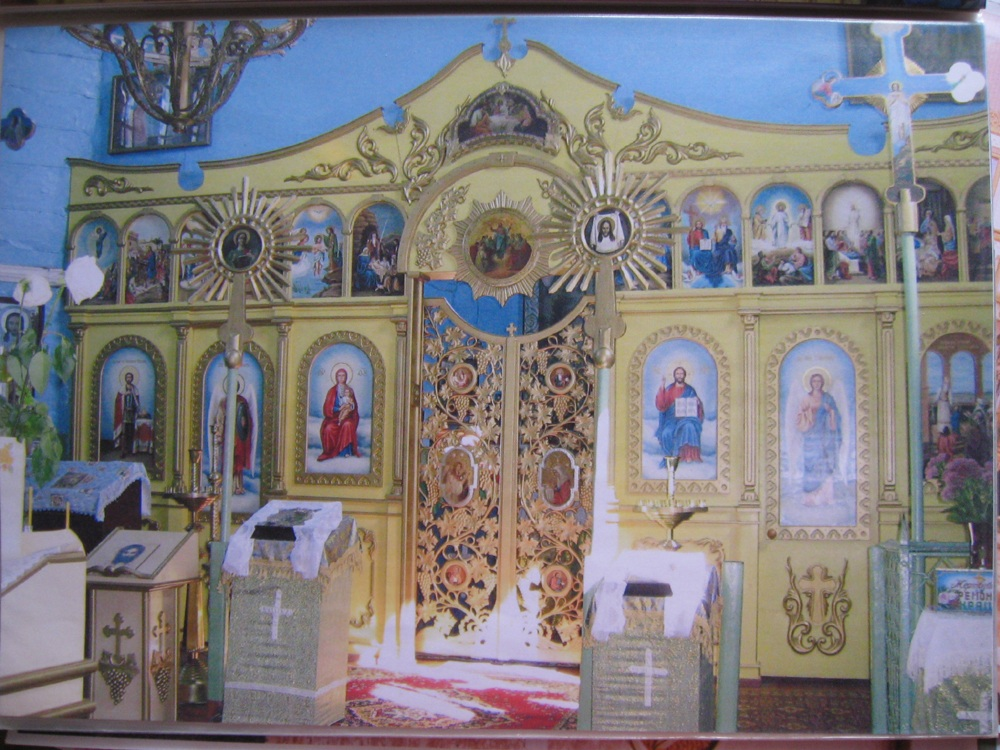 Holy Presentation Church (interior) in Beryslav